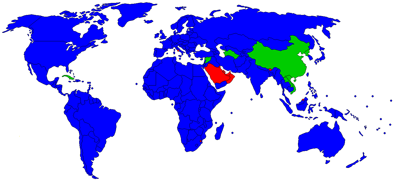 Colour-coded map of the world showing which governments claim to be democratic. It is meant to express the de jure situation.